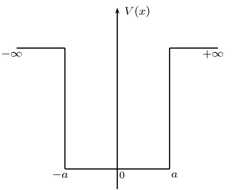 Infinite potential well created with pstrick from latex